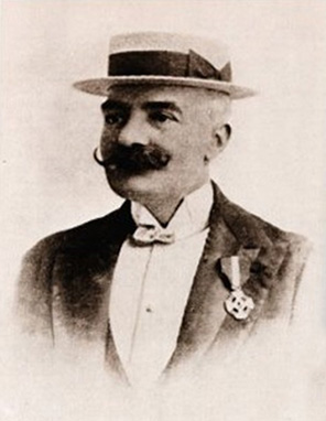 Emilio Salgari, the famous Italian writer of "Sandokan".